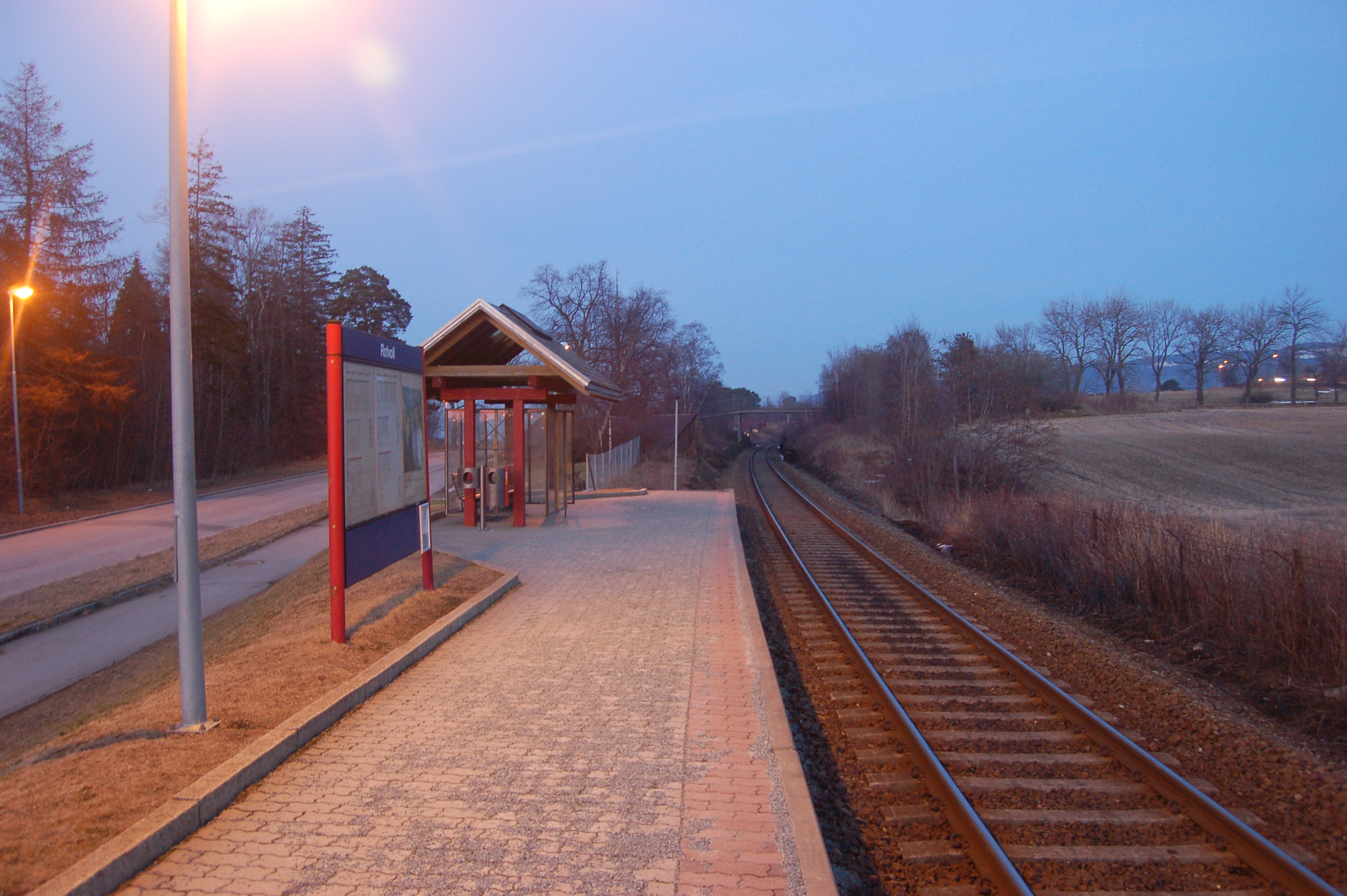 Rotvoll Station on Nordlandsbanen in Trondheim, Norway